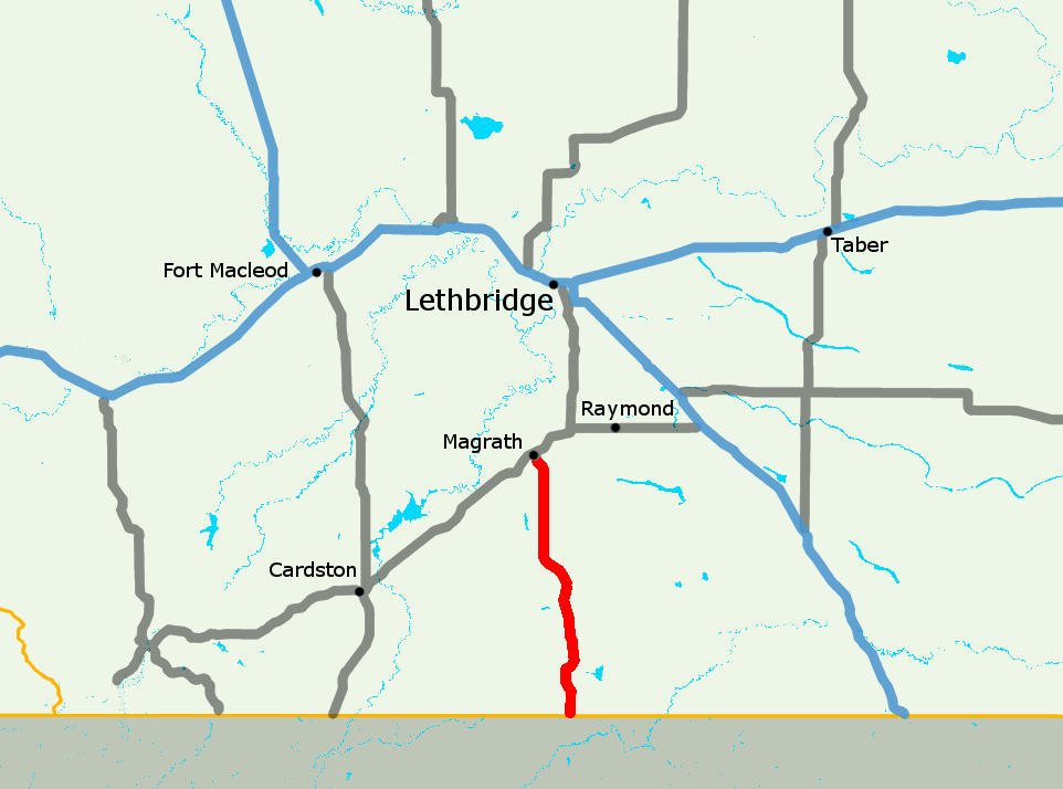 Alberta Highway 62 - created with OpenStreetMap